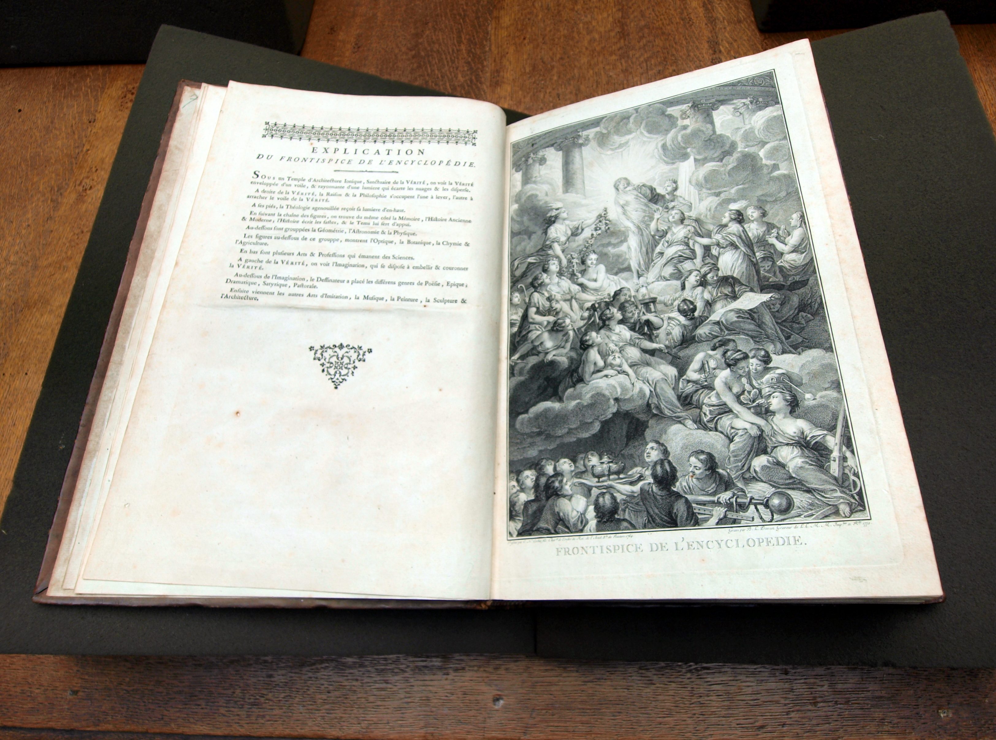 1st encyclopedia of the world at the Teylers museum